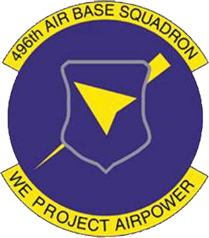 496th Air Base Squadron - Emblem